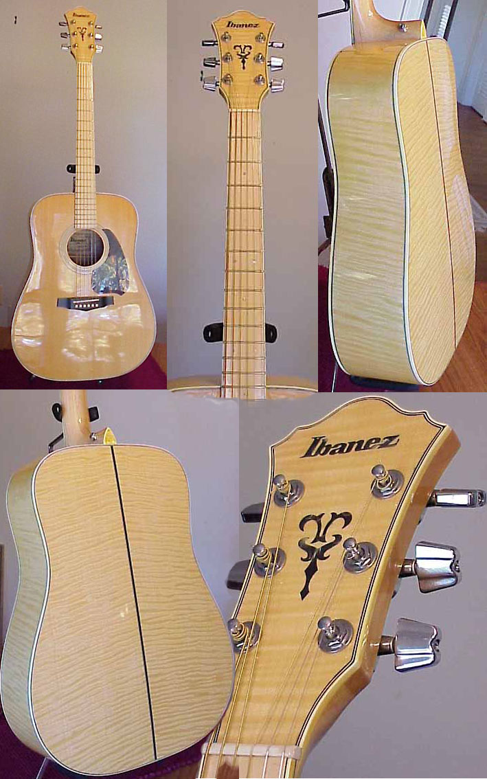 photoshopped images of an Ibanez NW 340 (also known as NW 40 & M 340)